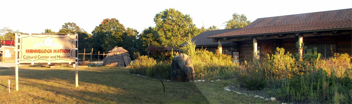 Shinnecock Nation Cultural Center and Museum in Southampton, New York. Photo by poster in September 2007.